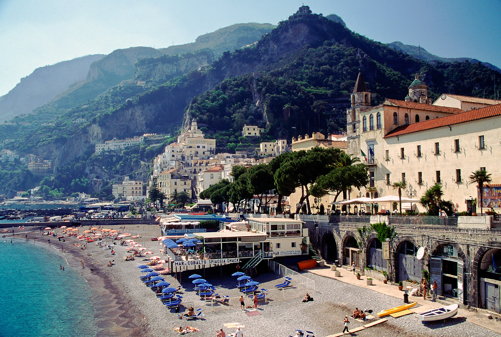 Amalfi - Beach